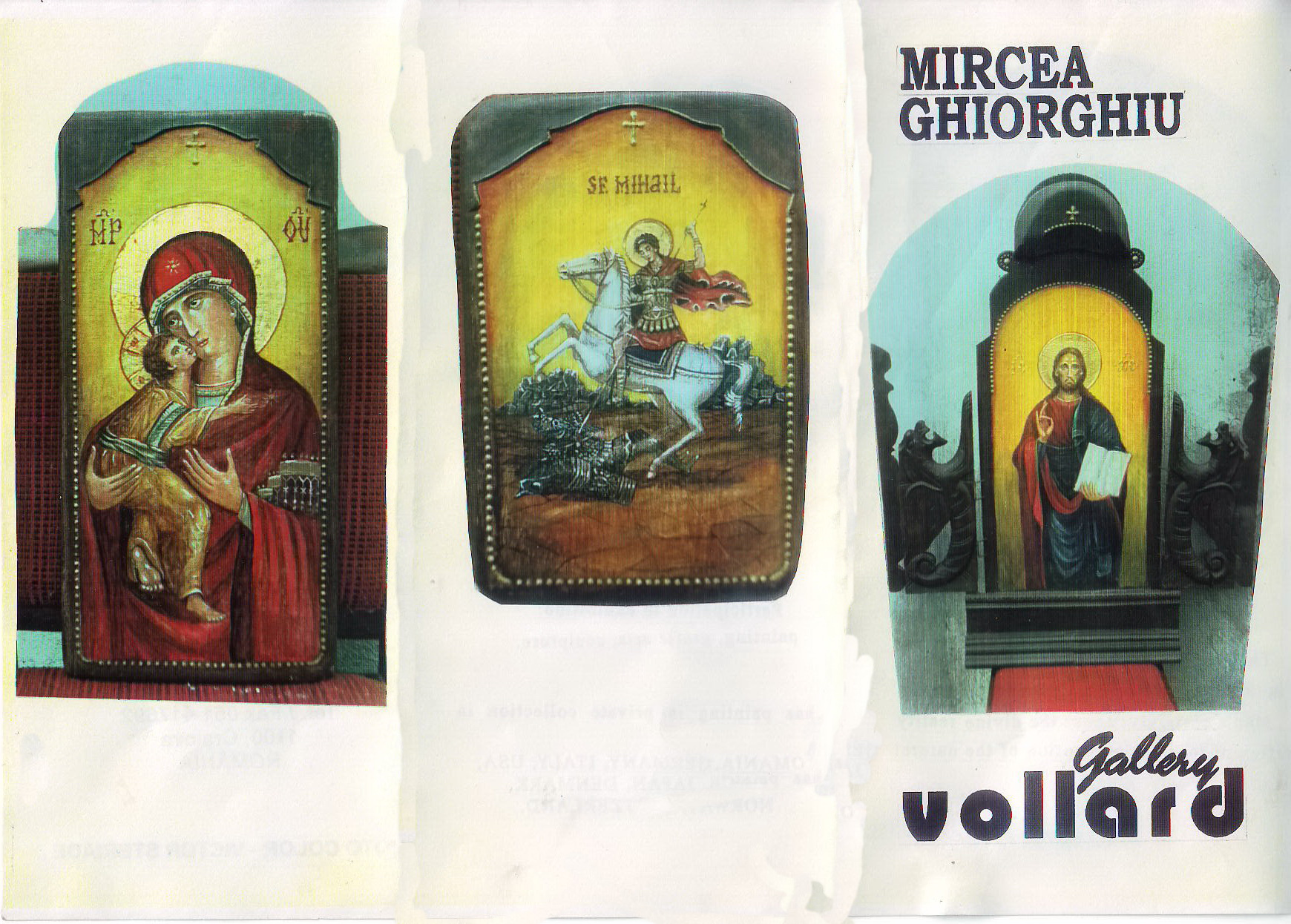 icon